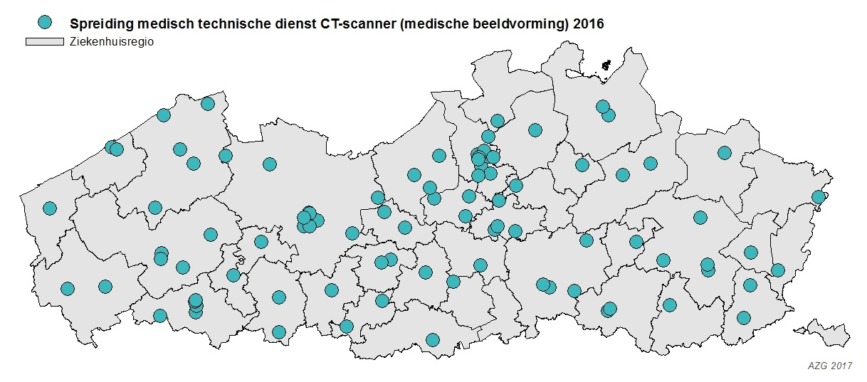 Geographical distribution of medico-technical services CT scanner in 2016 in Flanders